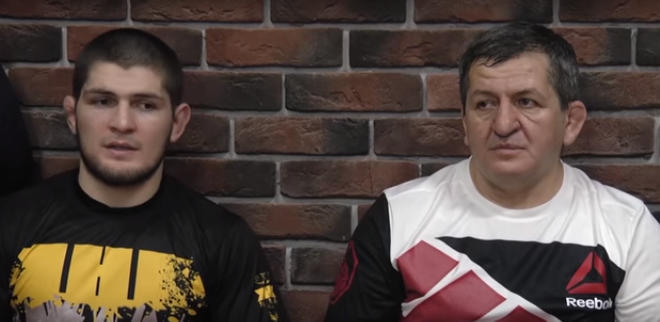 Khabib Nurmagomedov (left) and his father Abdulmanap